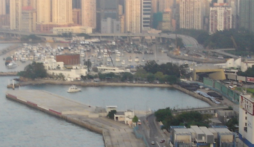 The eastern part of Hong Kong Island (Causeway Bay). 香港島東北海岸, 由近至遠分別是灣仔碼頭, 紅磡海隧入口, 銅鑼灣避風塘, 東區走廊...等. Cropped version: zoom on Kellett Island and the entrance of the Cross-Harbour Tunnel